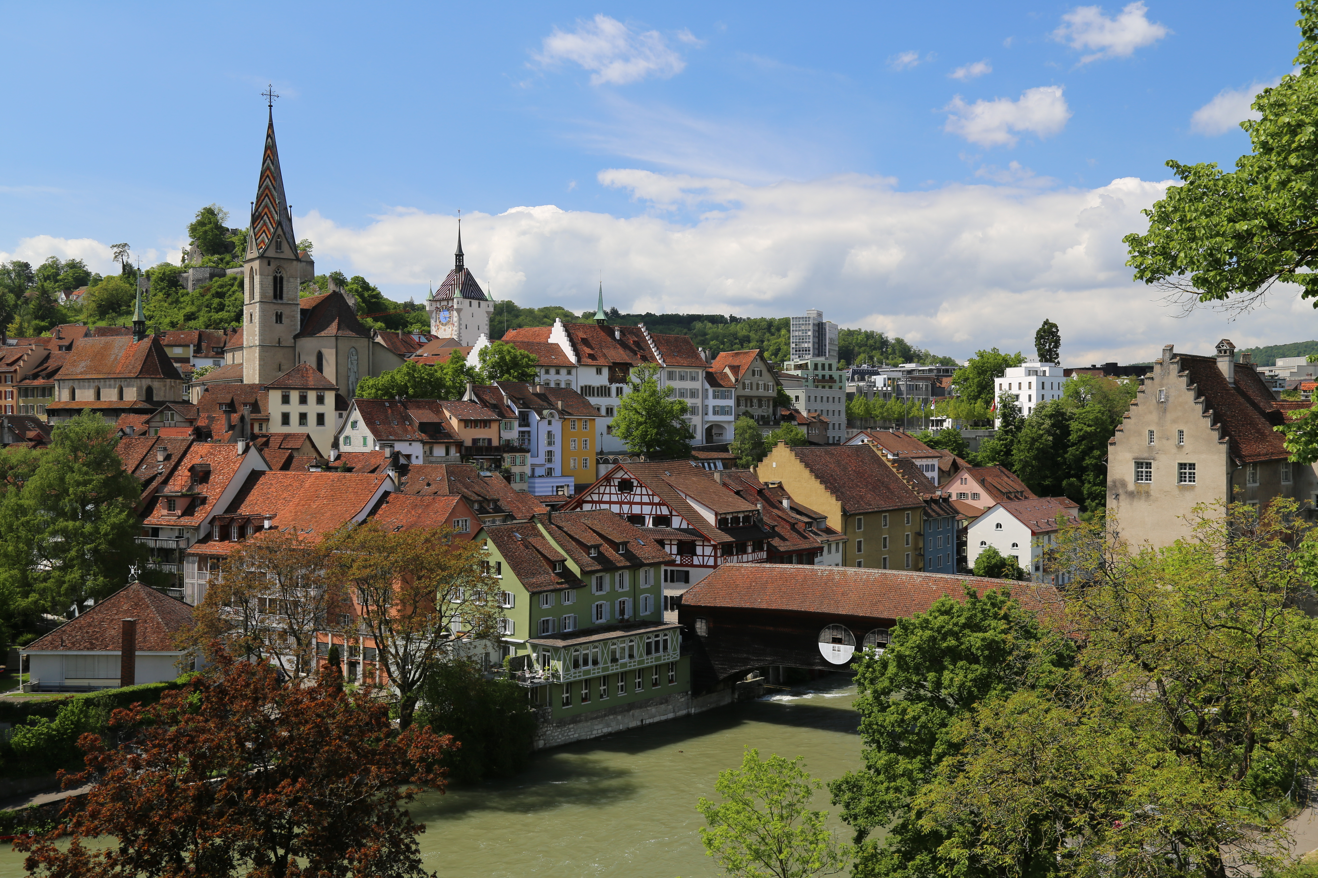 Old town of Baden with the Bailiff's castle (right), the covered bridge, the town hall complex in the center of the image, the gate tower and the church, with the ruins of the Castle Stein behind them.